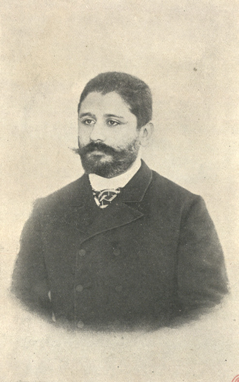 Photograph of Portuguese Republican politician Ernesto Cabrita, included in the Album Republicano, published in 1908.